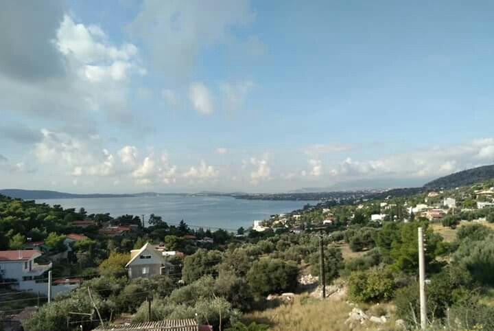 A panoramic view of Loutropyrgos, one of the first summer resorts near Athens, one of the favourites of the Athenian bourgeoisie.